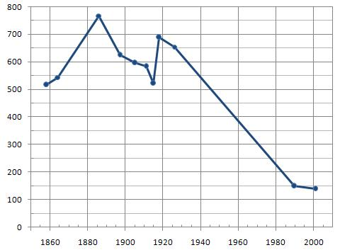 Population of Zolotaia Dolina (Melitopol Rayon, Ukraine) as function of time